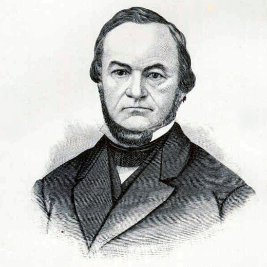 George R. Robbins, US Representative from New Jersey